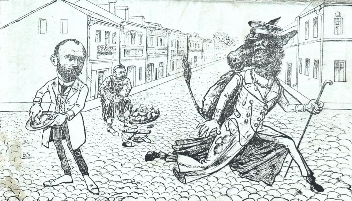 Caricature from Georgian journal Khumara #1, 1907. Published in Tiflis, then part of the Russian Empire.